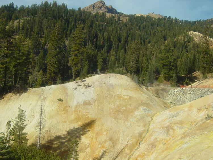 The Sulpher Works hot springs in Lassen National Park, California. Photograph by Daniel Mayer. Taken in October 2003